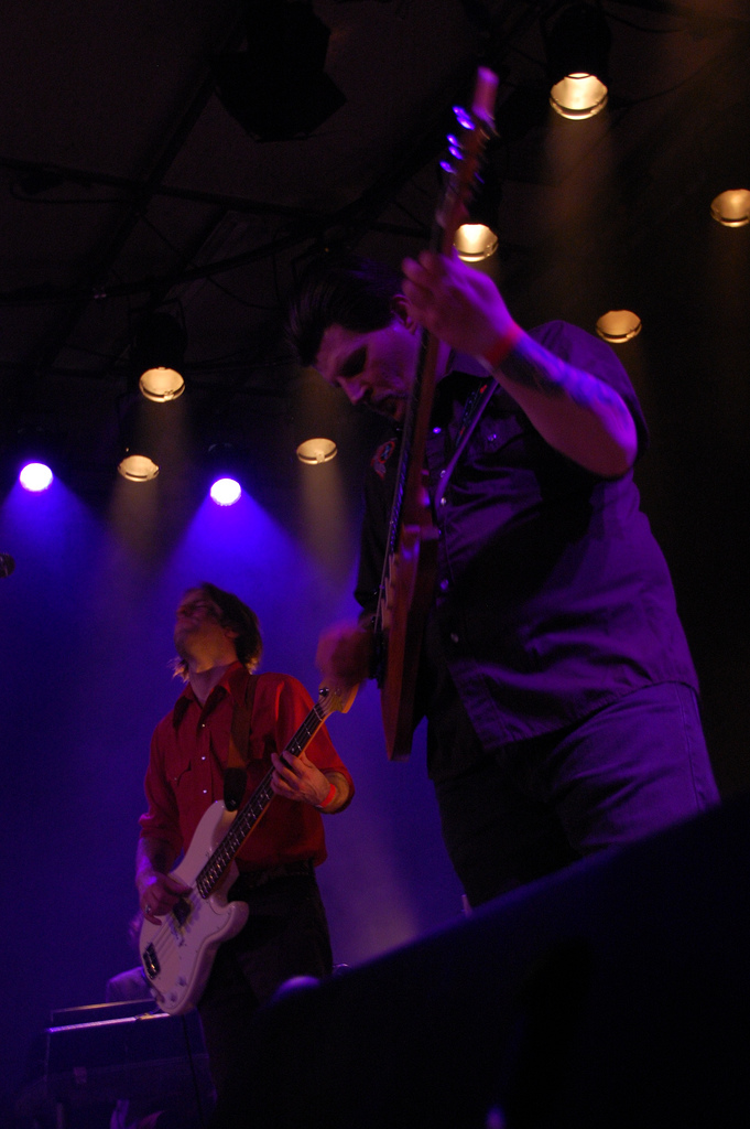 Don McGreevy (bass) and Dylan Carlson (guitar)